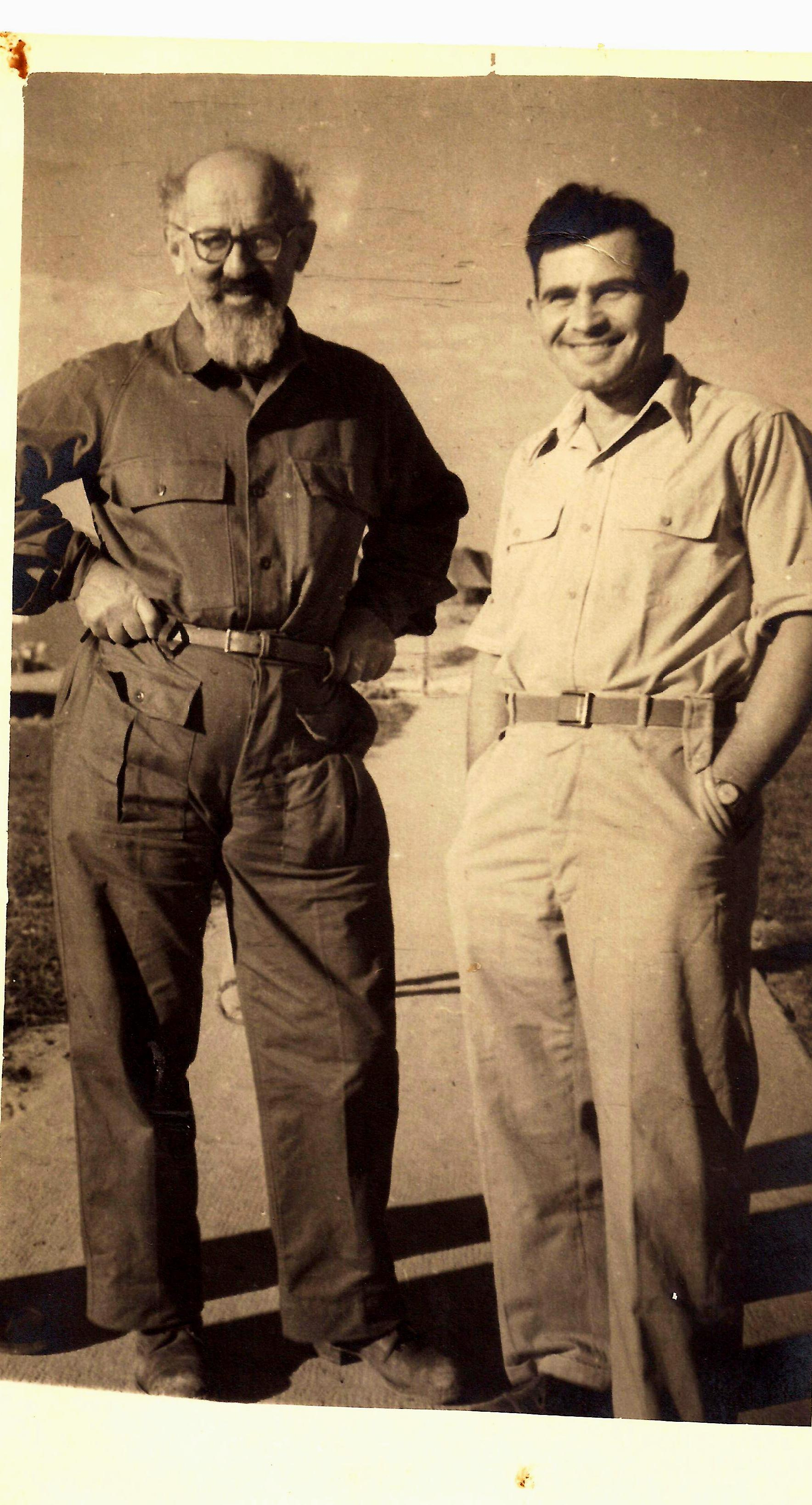 Pinchas Vase and Izhak Sade